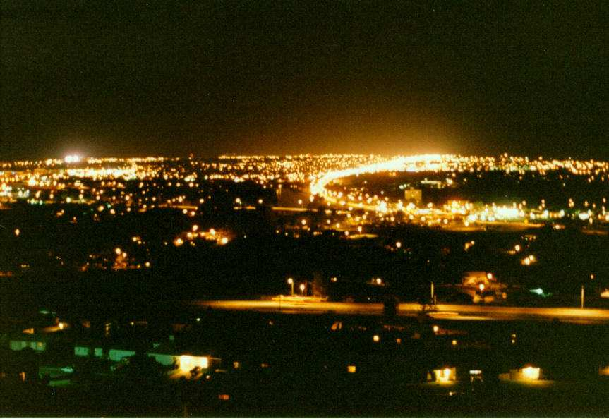 Great Falls, Montana, at night, looking east from the airport